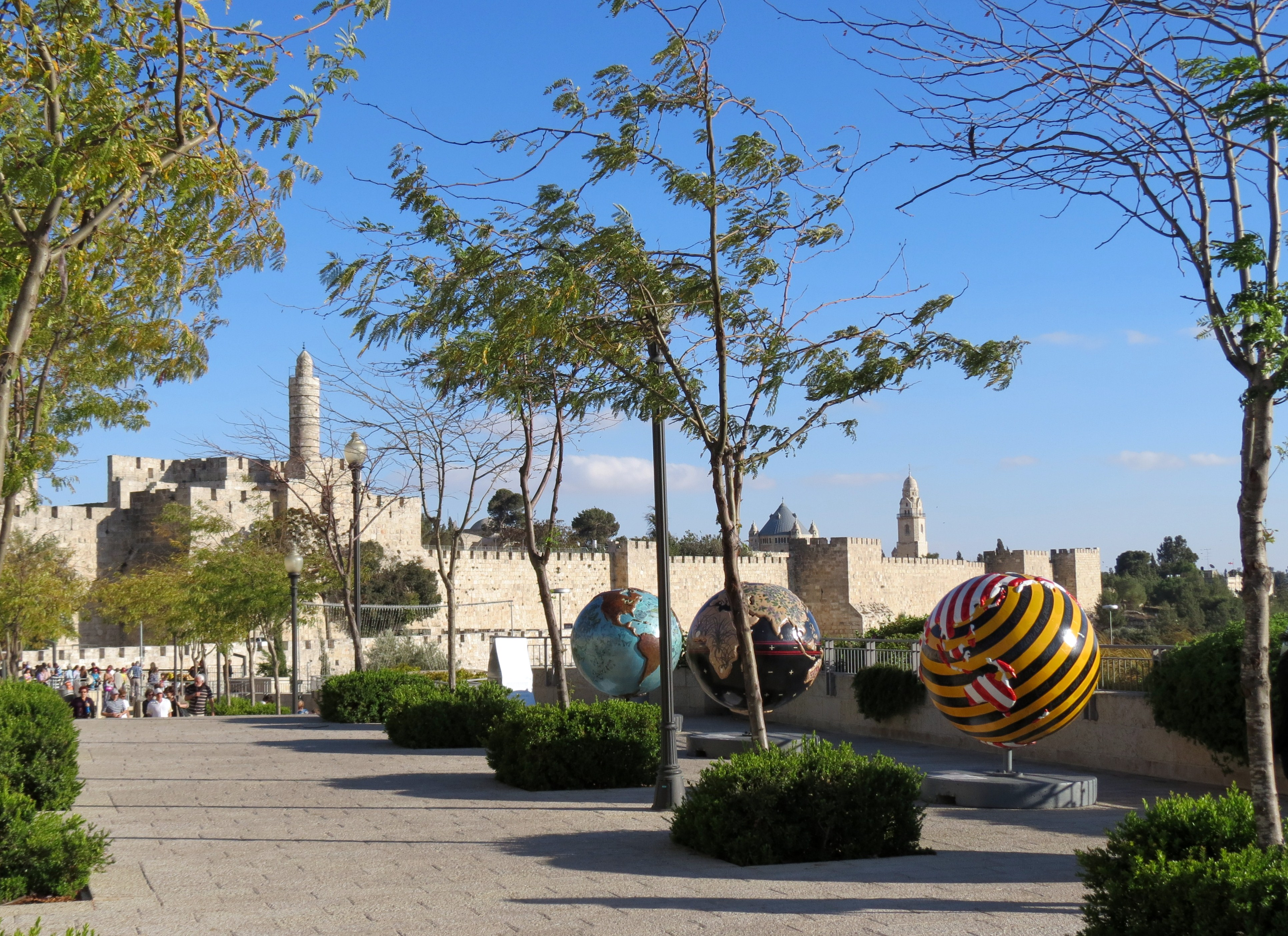 Vacation Experience